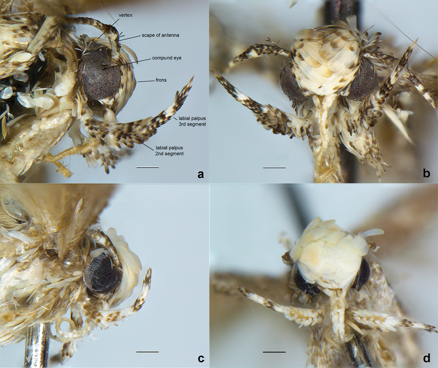 Close up of the head of male Neopalpa species. a, b N. neonata (LACMENT326885, Mexico: Baja California) c, d N. donaldtrumpi, holotype (UCBMEP0201628, CA: Imperial County). Left: lateral aspect, right: frontal aspect. Scale bar 1 mm.